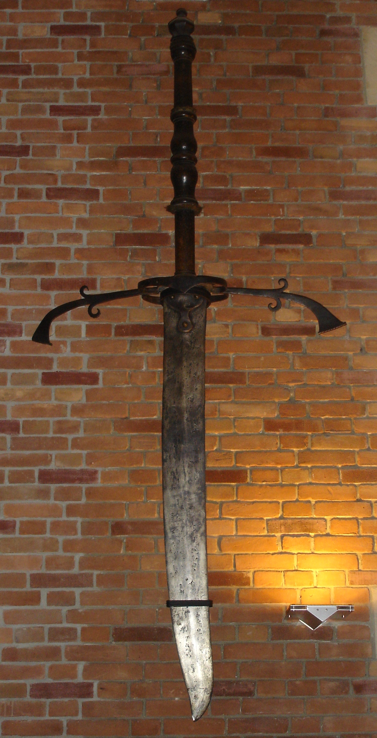 A giant sword in the citizens' hall of the historical city hall in Münster, Westphalia, Germany